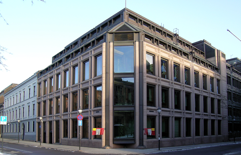 Norges Bank headquarters, Bankplassen 2, Oslo. Built 1986. Architects: Lund & Slaatto A/S.